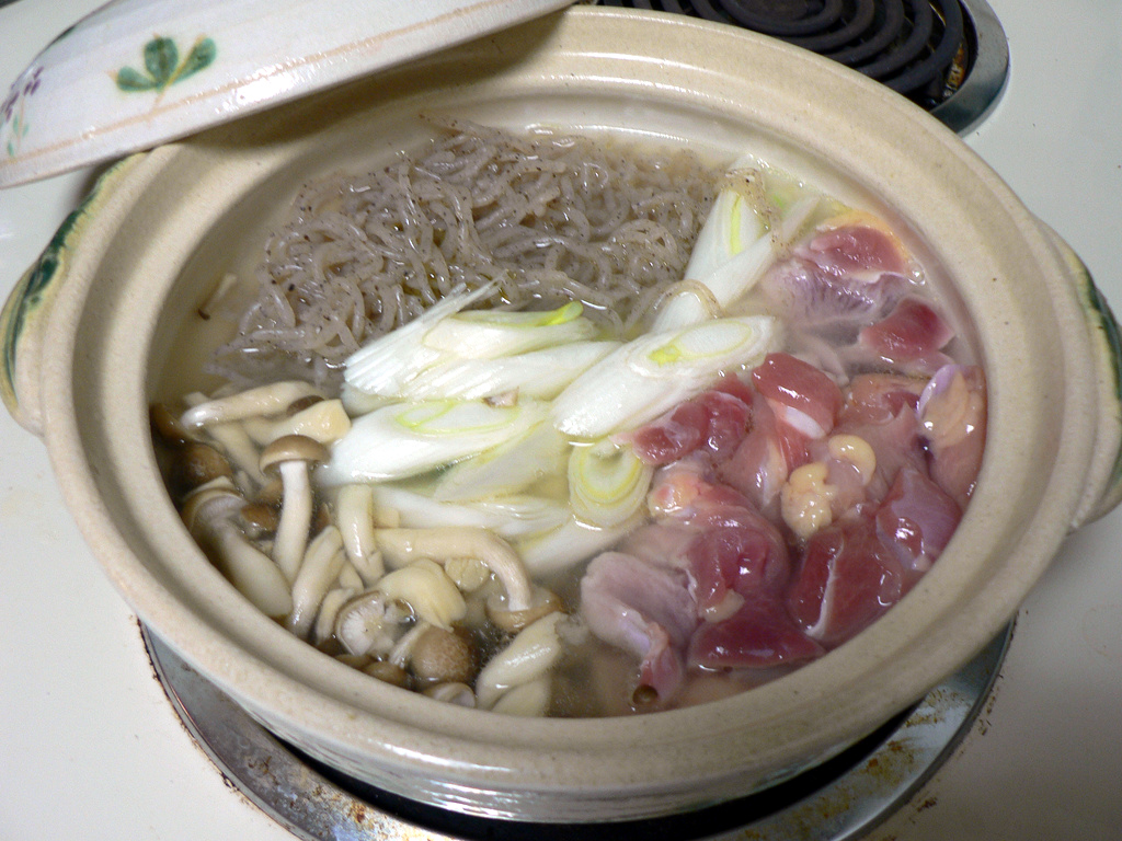 Shirataki noodles with other ingredients [clarification needed].